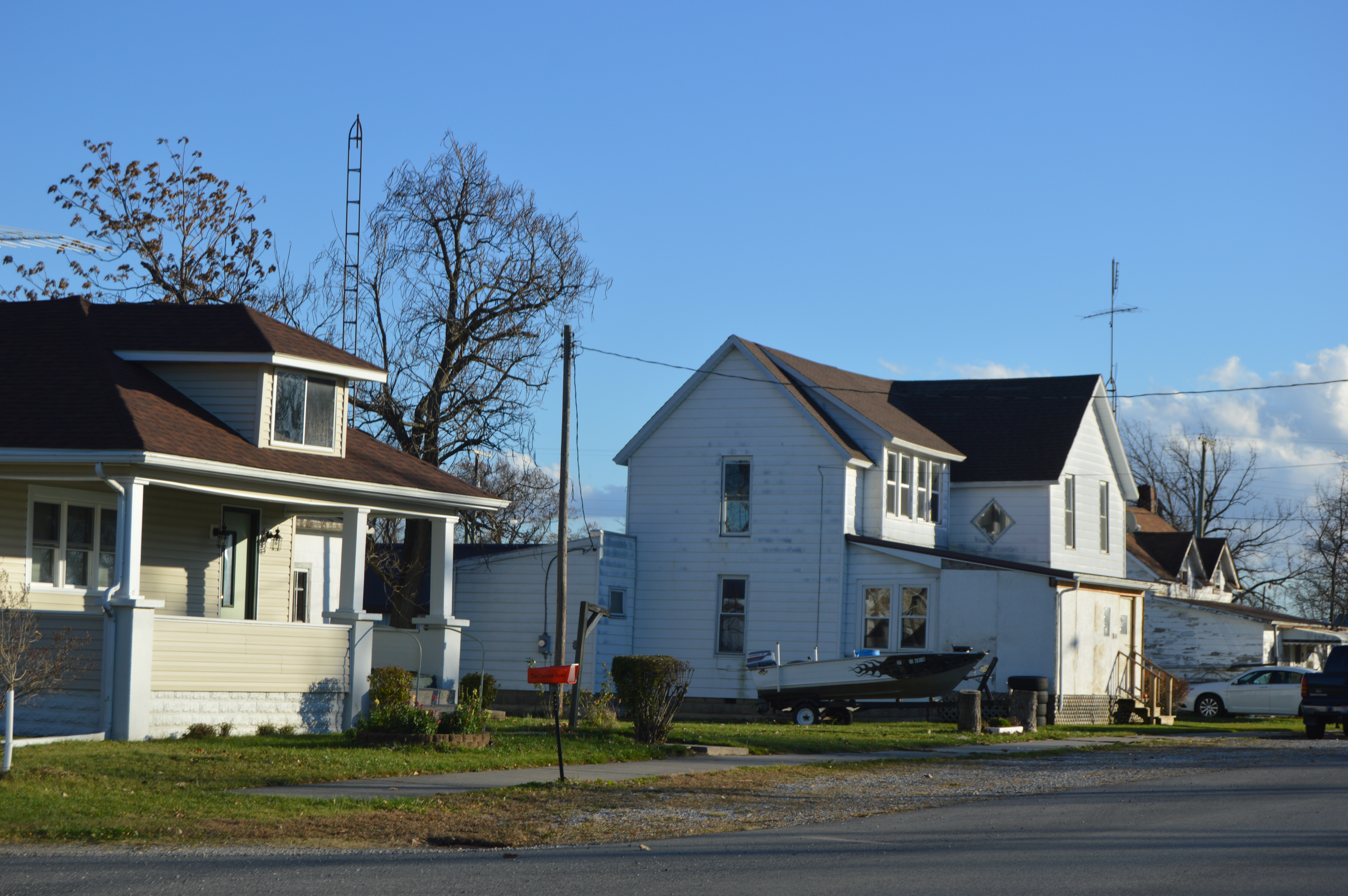 Houses on the eastern side of State Street (State Route 613) south of the railroad line in Melrose, Ohio, United States.